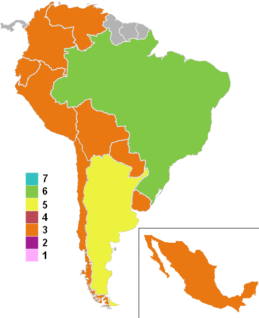 Active teams in the Copa Libertadores